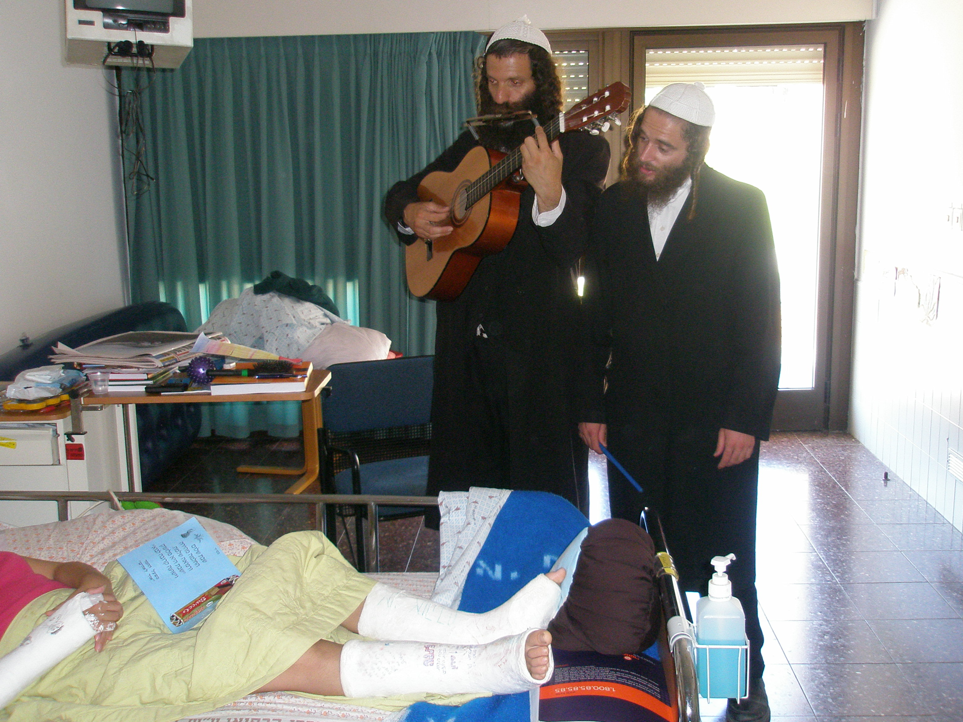 Two Breslov Hasidim perform the mitzvah of bikur cholim (visiting the sick) at Sheba Medical Center, Tel Hashomer, Israel